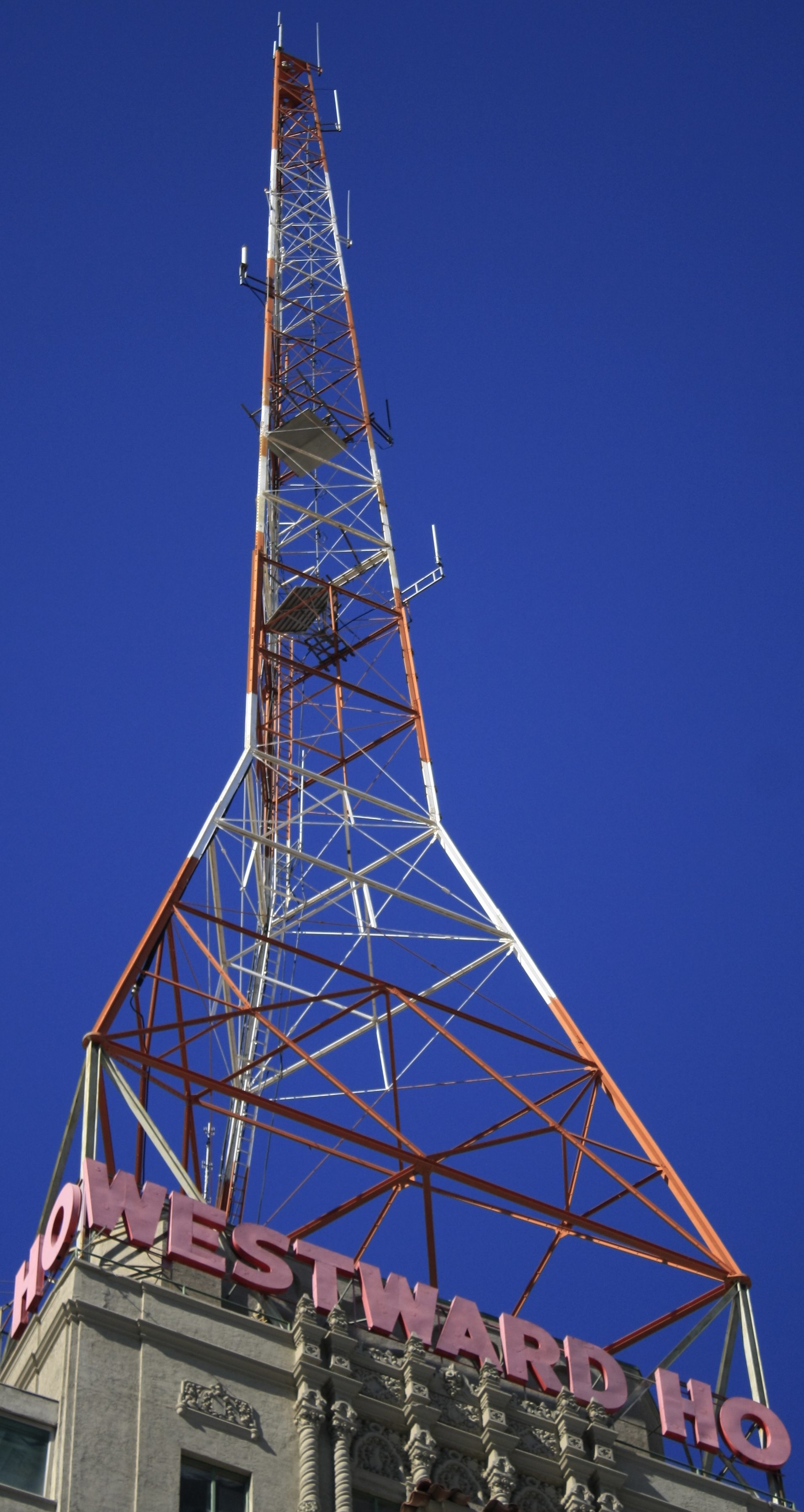 Westward Ho – former landmark hotel and current high-rise retirement complex in Downtown Phoenix. The roof sports a radio transmitter antenna, last used by KPHO-TV in 1960, and now a Cell phone tower, which makes for an interesting addition to the skyline. Processed from RAW format, exported to JPEG.